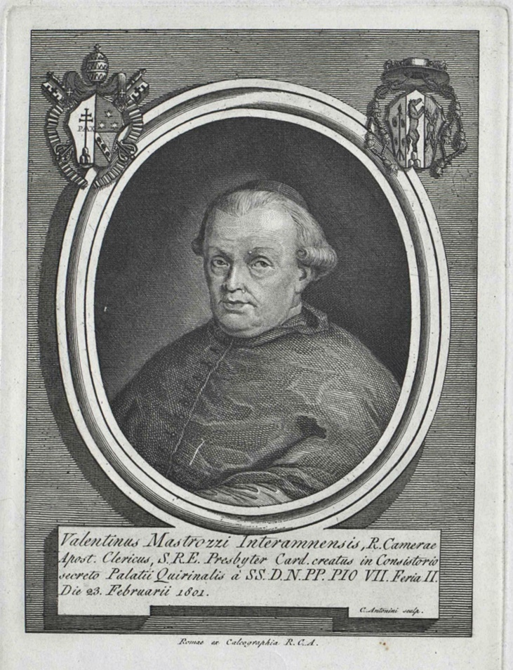 Kardinal Valentino Mastrozzi (1729-1809)